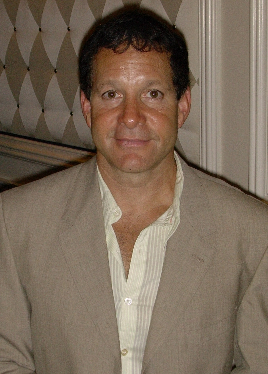 Steve Guttenberg in July 2005.